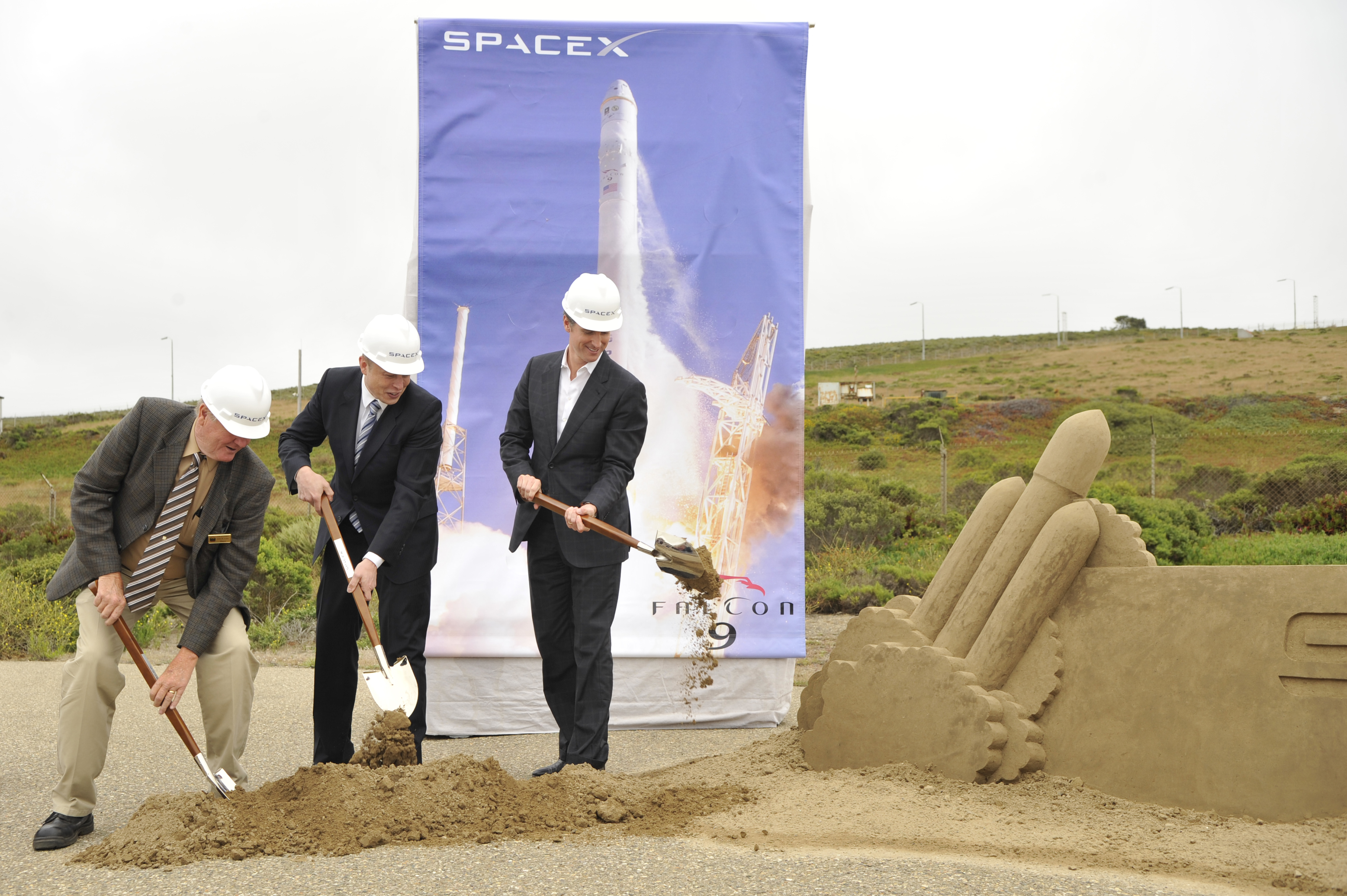 VANDENBERG AIR FORCE BASE, Calif. -- Lompoc Mayor John Linn, Elon Musk, the founder and chief executive officer of SpaceX, and California Lt. Govenor Gavin Newsom, shovel sand during the ground breaking ceremony at Space Launch Complex 4 East here Wednesday, July 14, 2011. SpaceX has plans to launch their Falcon Heavy from Vandenberg in 2013. (U.S. Air Force photo/Staff Sgt. Andrew Satran)